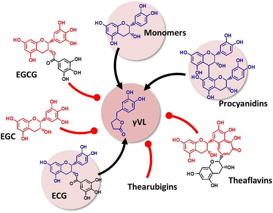 Precursors of colonic flavan-3-ol metabolism.